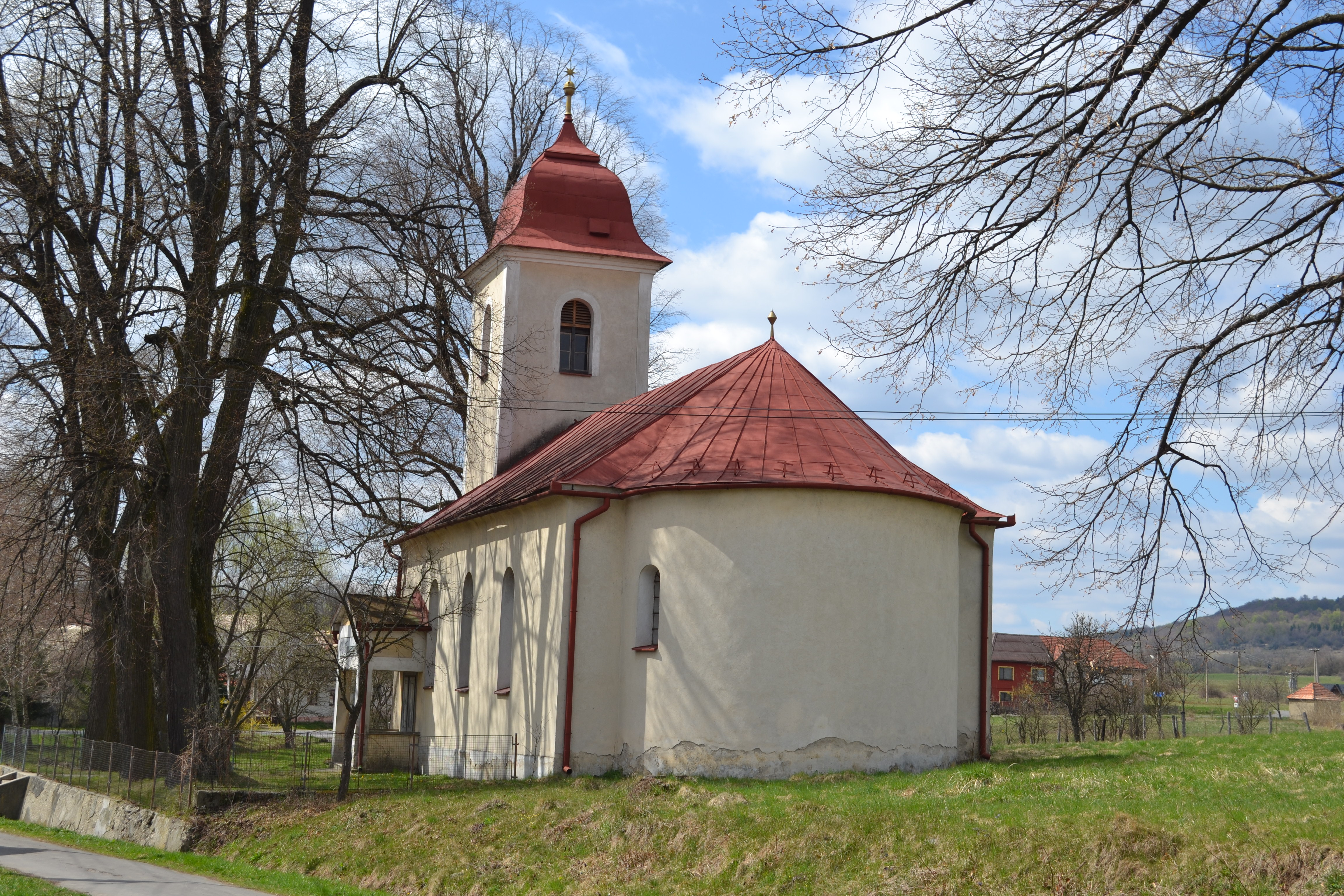 Evangelical Church in Polichno (Slovakia)